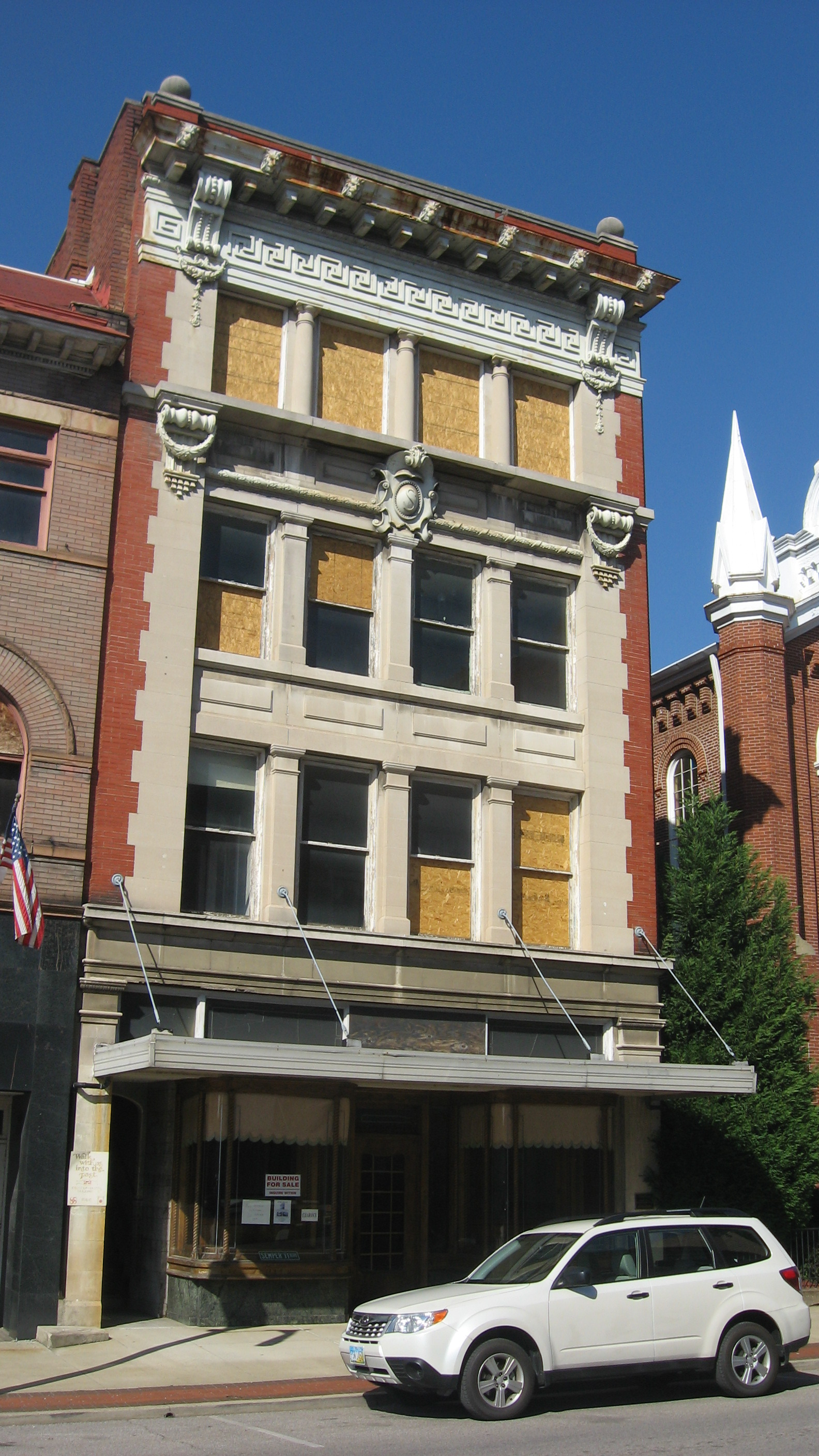 Front of the Oeldorf Building, a former jewellery shop located at 809 Market Street in Parkersburg, West Virginia, United States. Built in 1906, it is listed on the National Register of Historic Places.